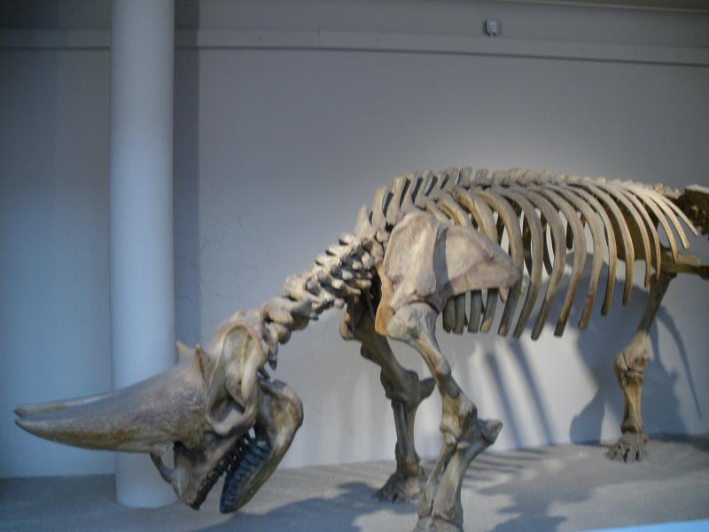 Reconstruction of Arsinoitherium zitteli at the Natural History Museum in London, England.